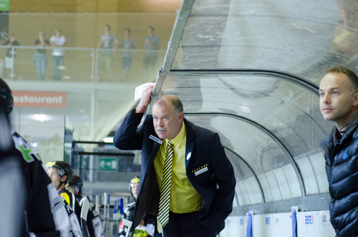 Dornbirn vs VSV in EBEL